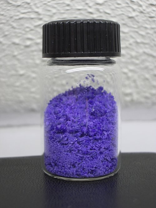 The nickel(II) hexammine complex with bromide